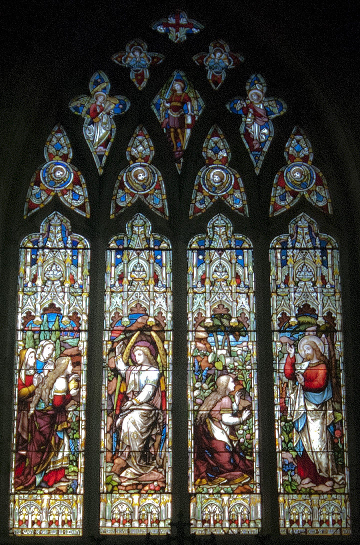 The east stained glass window at St Michael and All Angels, Hamstall Ridware. Designed by Ward and Hughes.